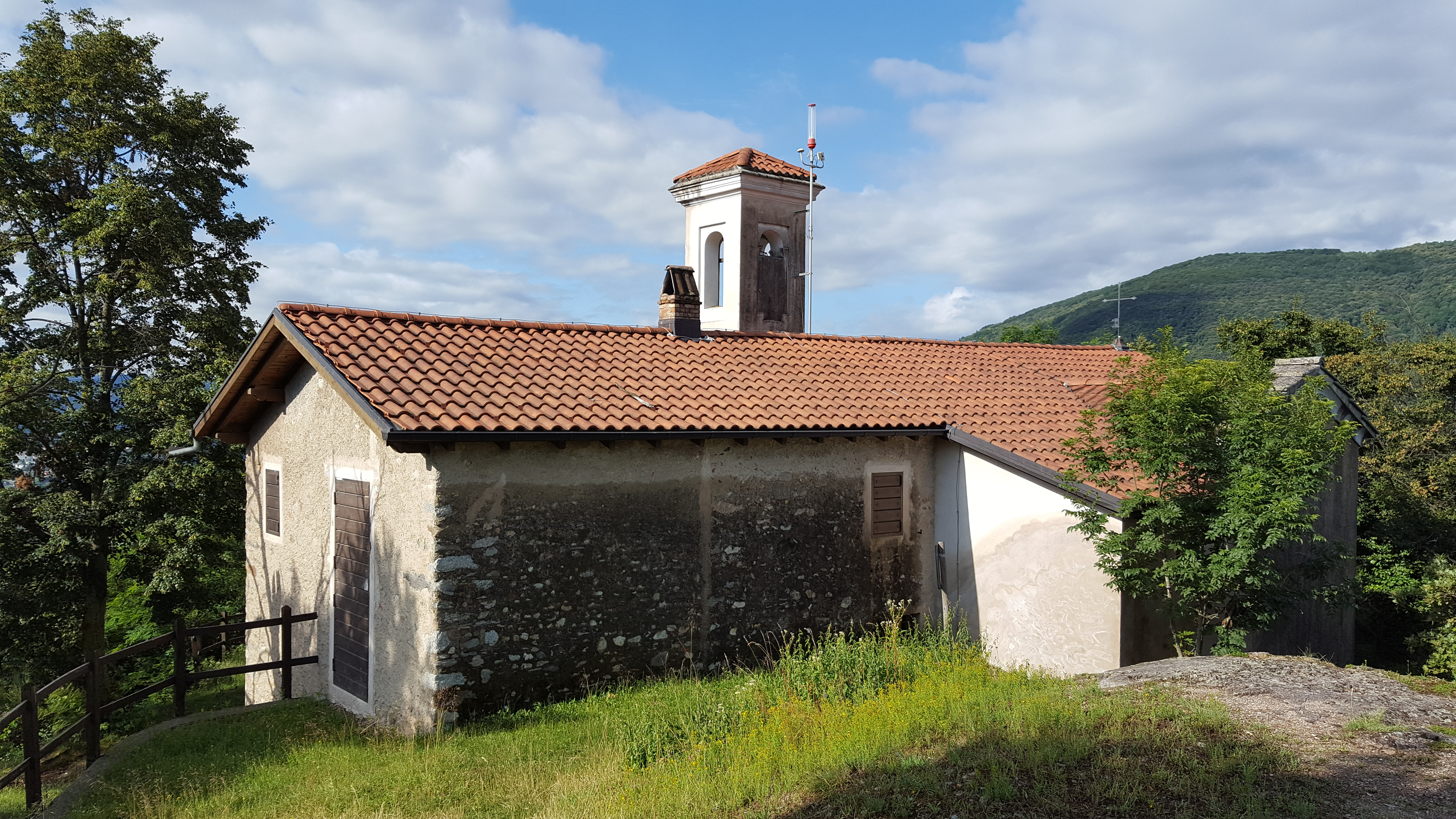 San Zeno (Lamone, Ticino, Switzerland)